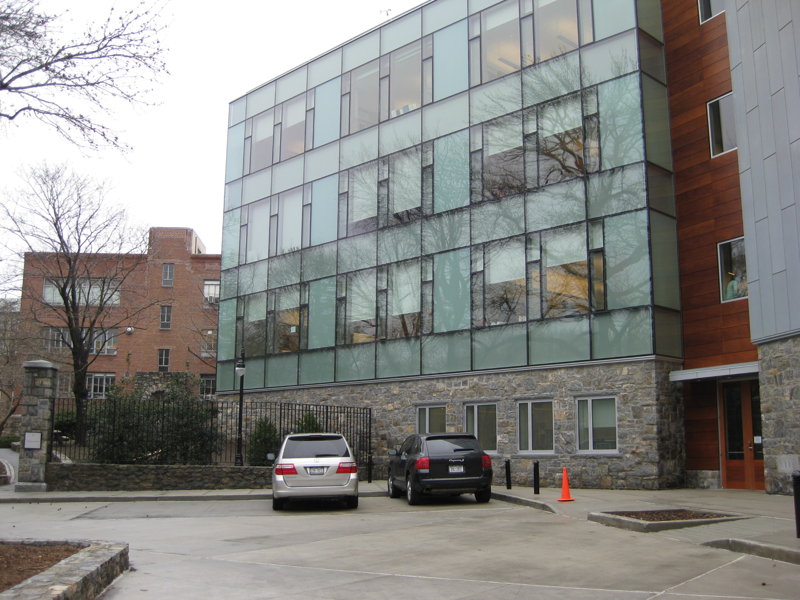 This photo is of Wikipedia Takes Manhattan location code 184, Ethical Culture Fieldston School.